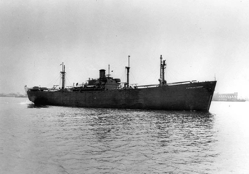 The first Liberty ship SS Patrick Henry shortly after its launch in September 1941.